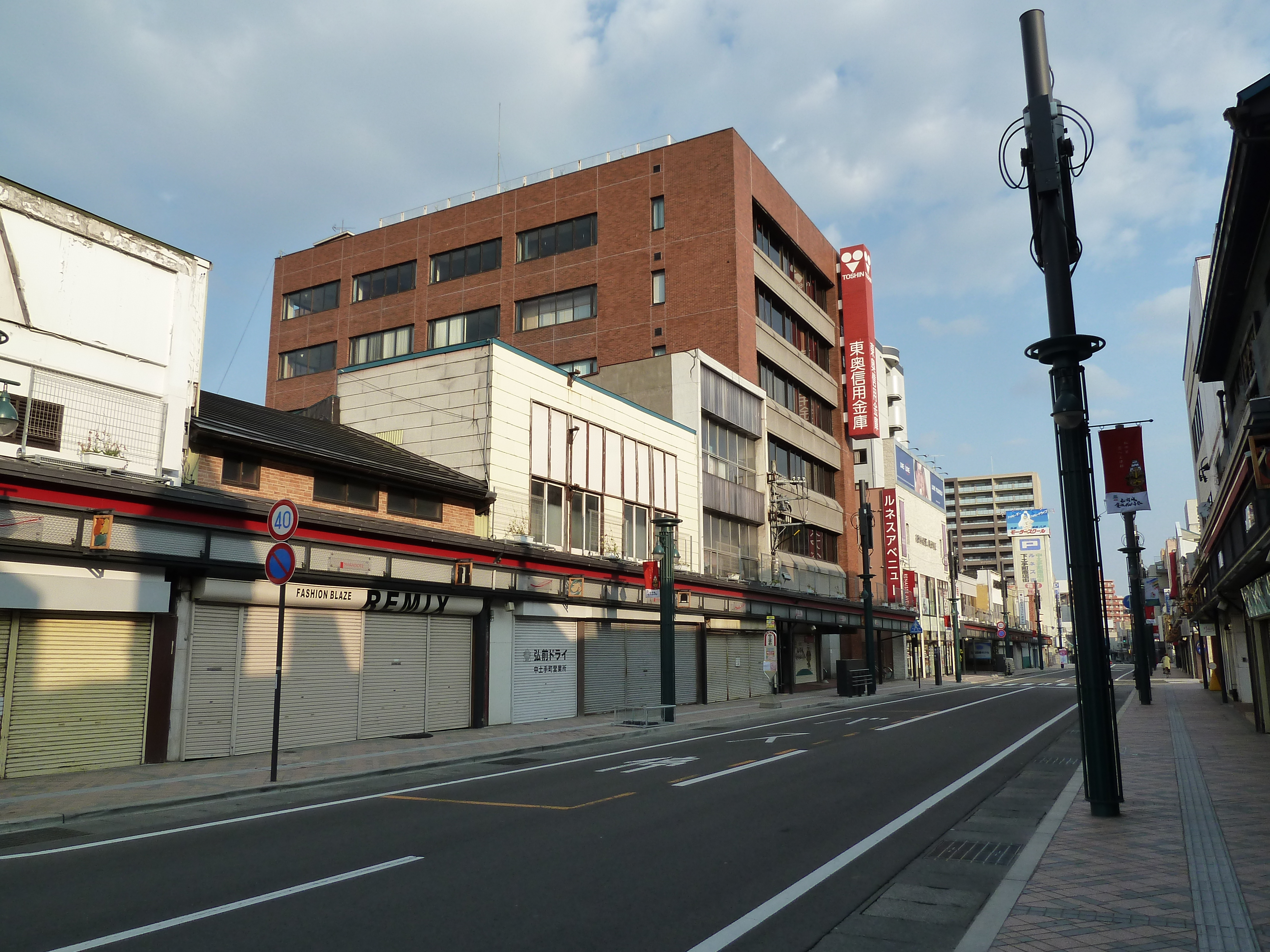 東奥信用金庫